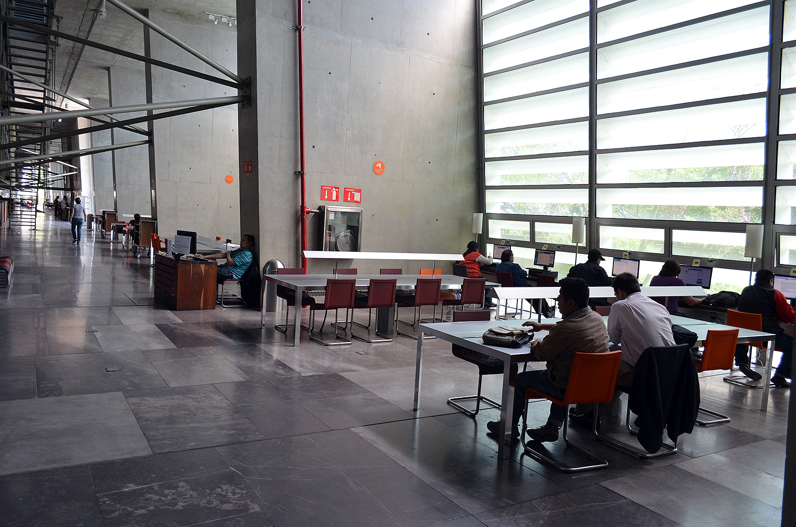 The library is located in downtown Delegación Cuauhtémoc at the Buenavista train station where the metro, suburban train, and metrobus meet. It is adorned by several sculptures by Mexican artists, including Gabriel Orozco's Ballena (Whale), prominently located at the centre of the building.